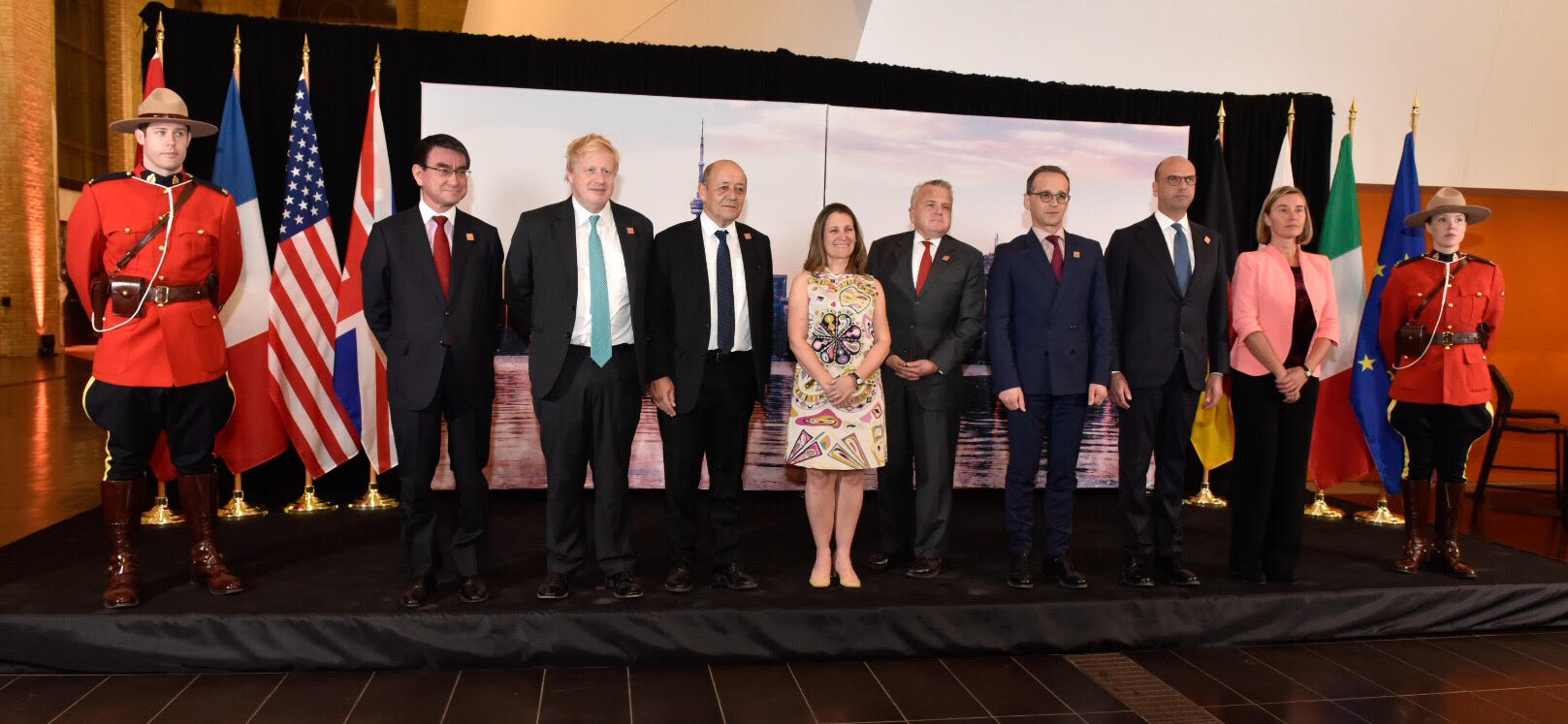 Foreign ministers pose for a family photo during the G-7 Foreign Ministers' Meeting in Toronto, Canada. Left to right: Tarō Kōno, Boris Johnson, Jean-Yves Le Drian, Chrystia Freeland, John J. Sullivan, Heiko Maas, Angelino Alfano, Federica Mogherini.